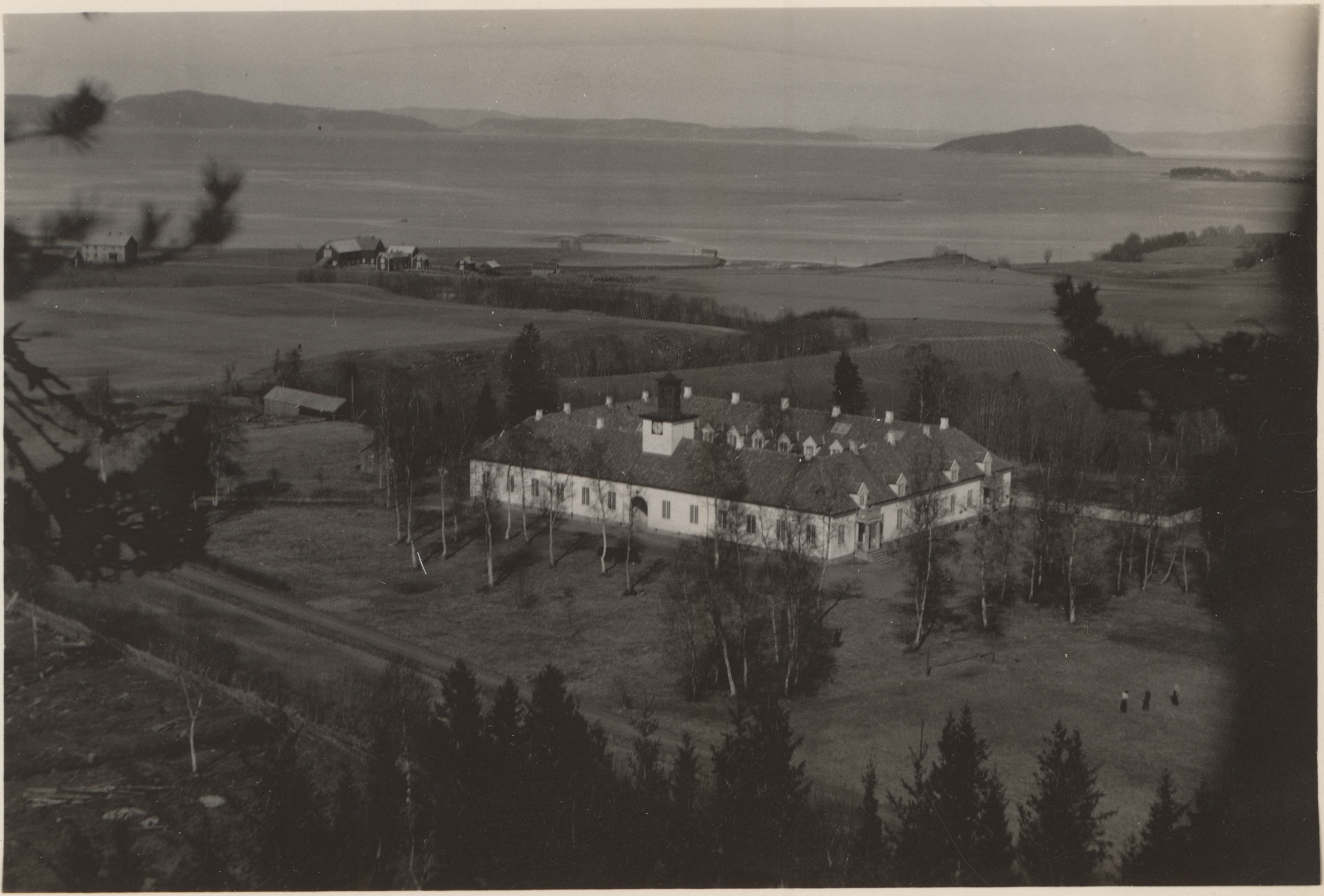 Murbygget på Falstad skolehjem en gang på 1930-tallet. The brick building at Falstad Reformative School some time in the 1930's. Dato / Date: 1931–1939 Fotograf / Photographer: Ukjent/unknown Sted / Place: Ekne, Nord-Trøndelag, Norge/Norway Arkivreferanse /Archive reference: FSM foto 0800432 Fotoeier / owner: S.H. Falstad